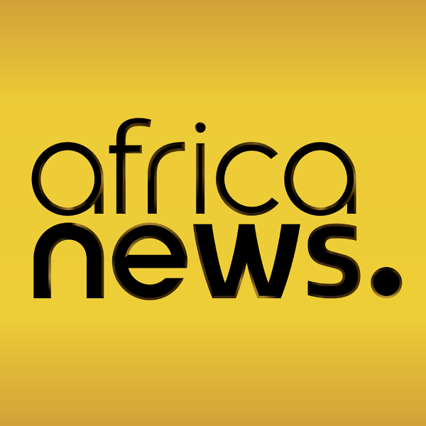 This is an alternative logo of africanews. since April 20th 2016.